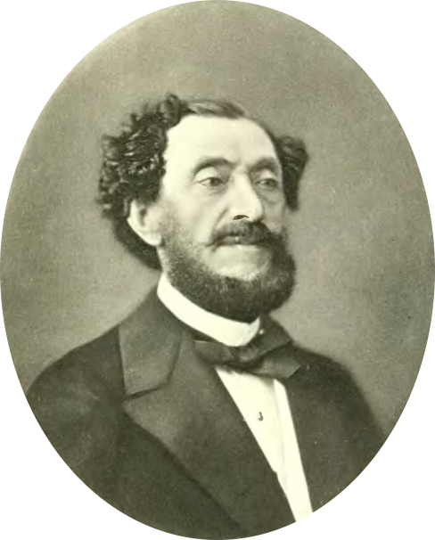 Prince Regent of Romania Barbu Stirbey (1796-1868).